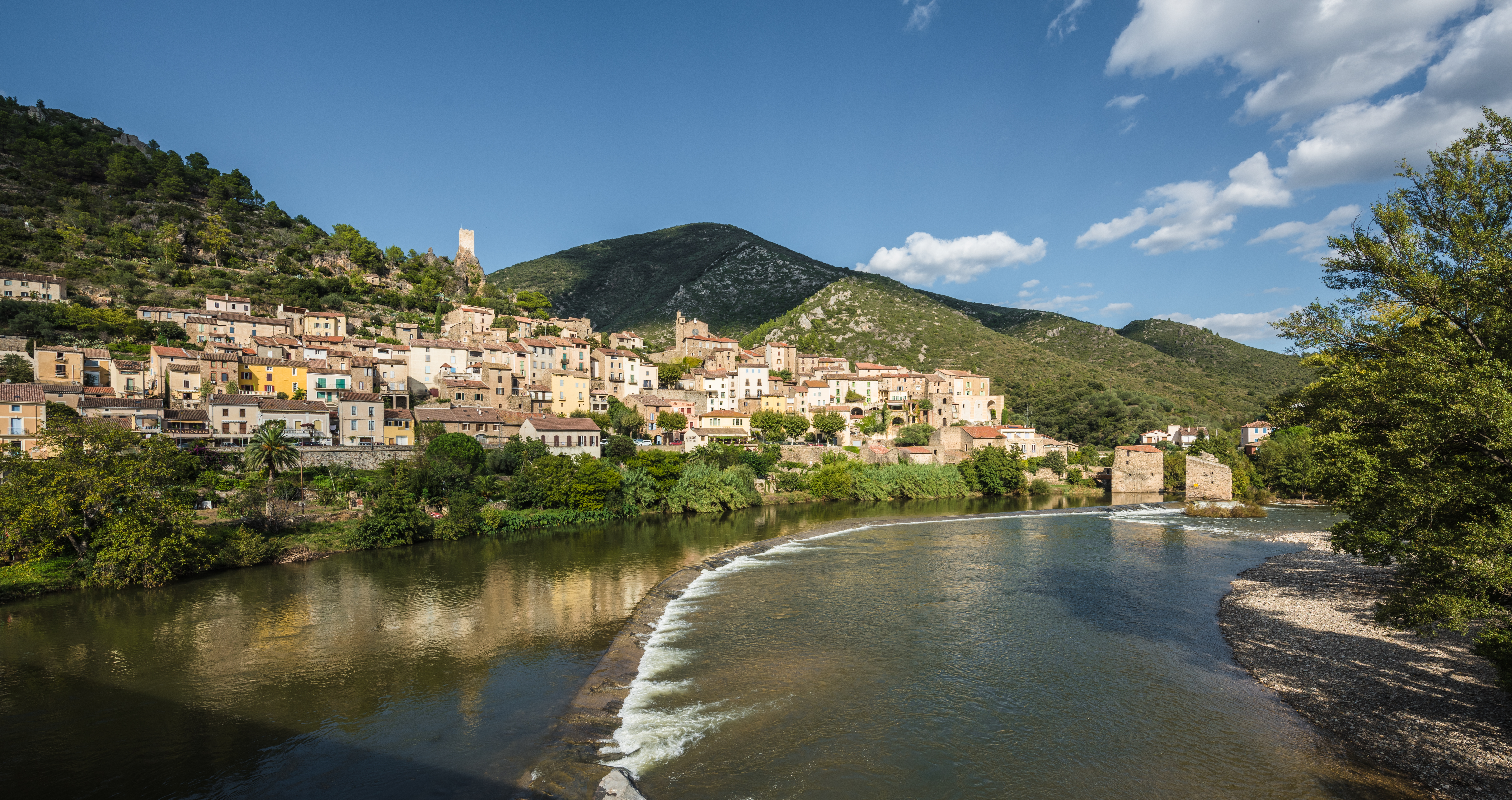 The village of Roquebrun from the Bridge above the Orb River.Roquebrun, Hérault, France. Haut-Languedoc Regional Natural Park.